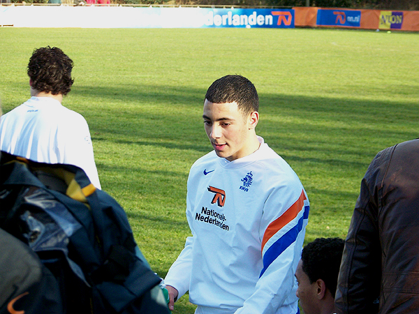 Nordin Amrabat